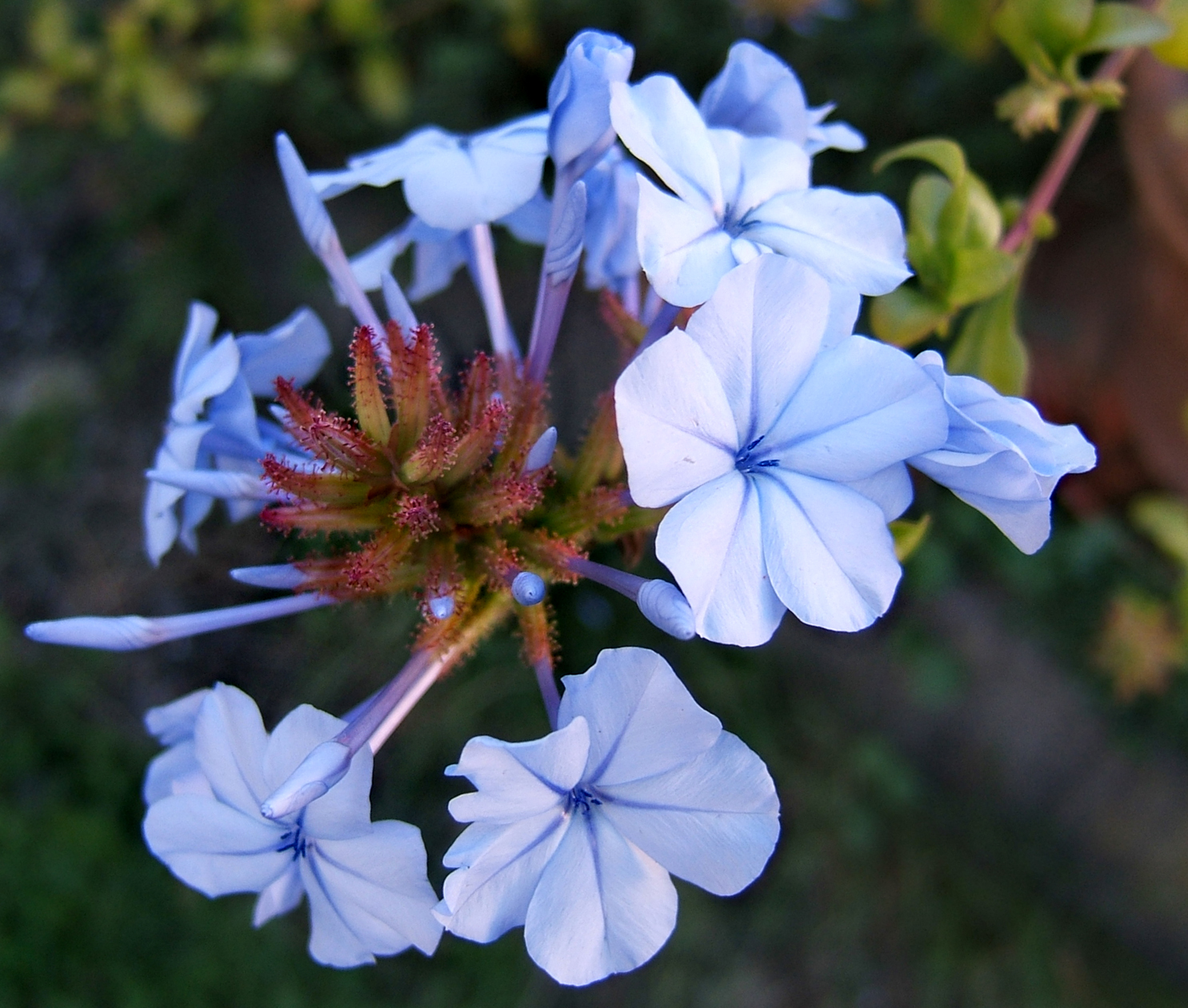 Blue plumbago, Cape blumbago, Cape leadwort